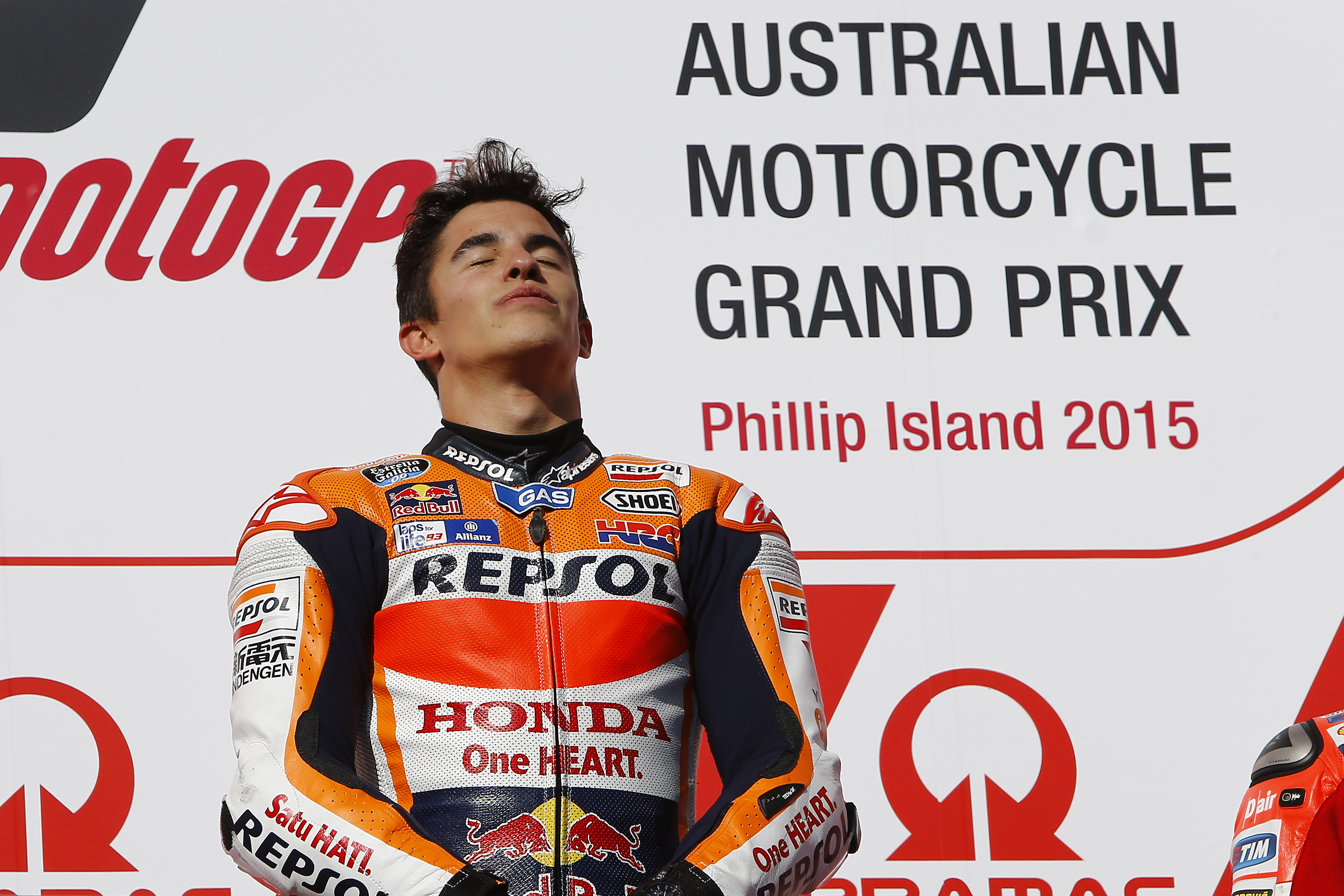 Marc Márquez, celebrating on the podium after winning the 2015 Australian Grand Prix.